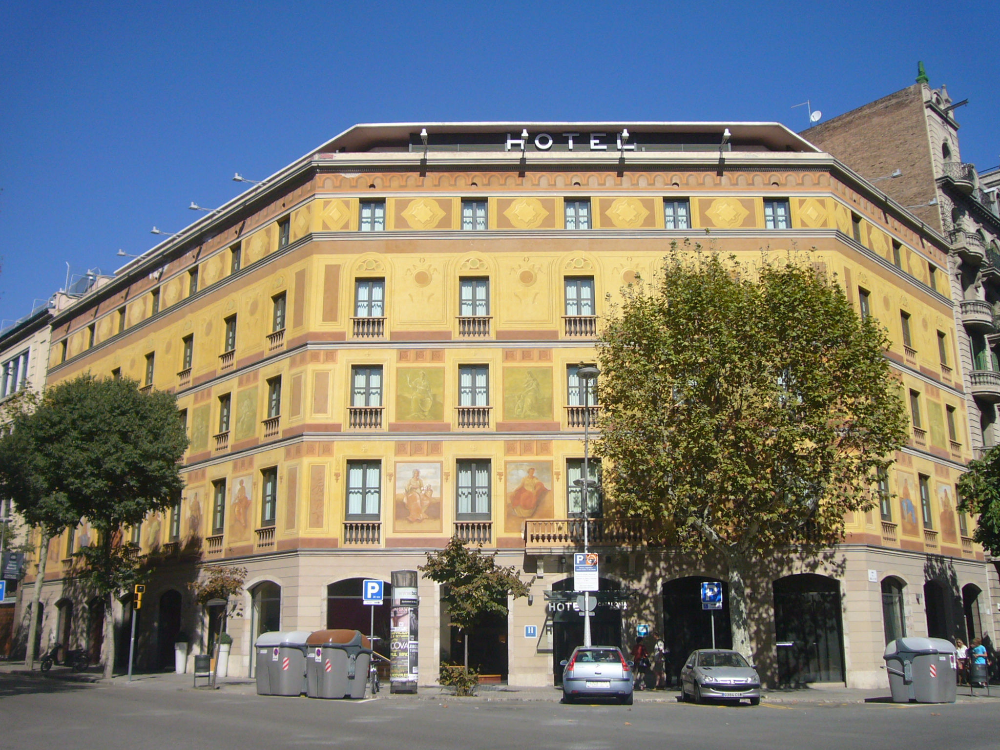 Hotel Catalonia Berna (Roger de Lluria, 60, Barcelona)